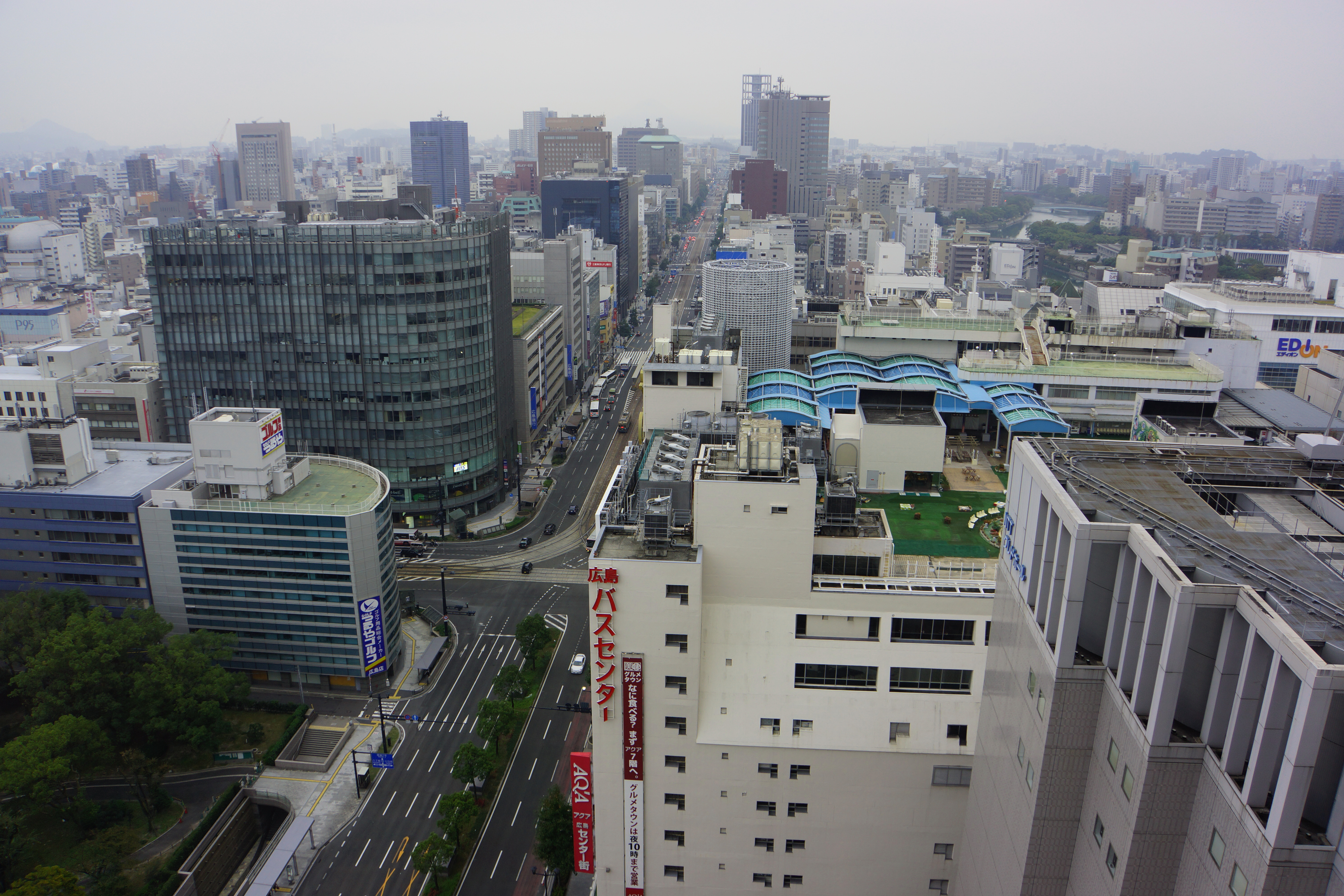 廣島市區 Downtown Hiroshima